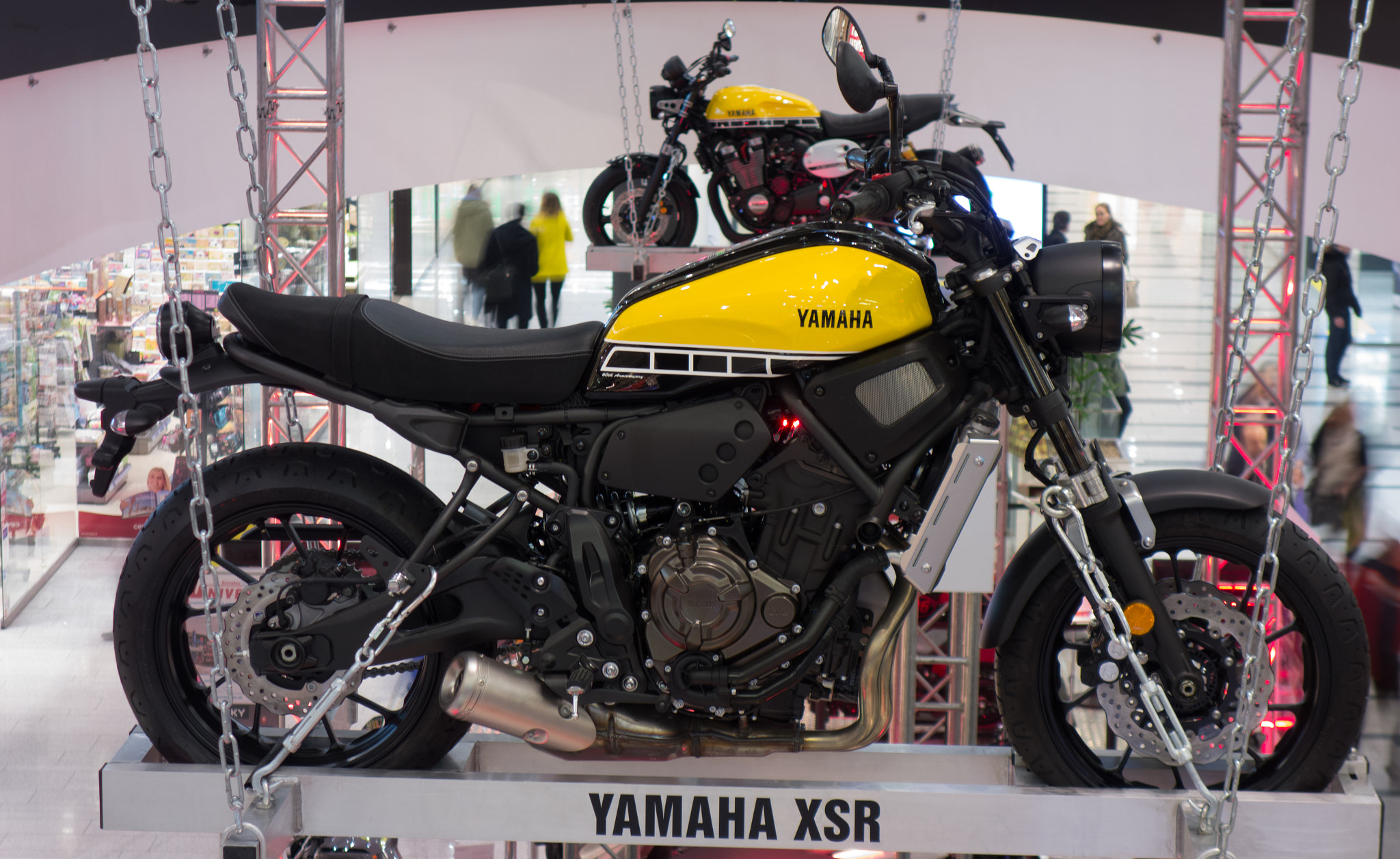 500px provided description: Yamaha Xsr [#Moto ,#Motorcycle ,#Yamaha]